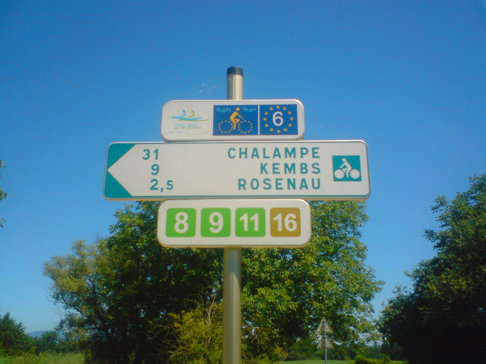 The number of kilometers to the cities Rosenau, Kembs et Chalampe.